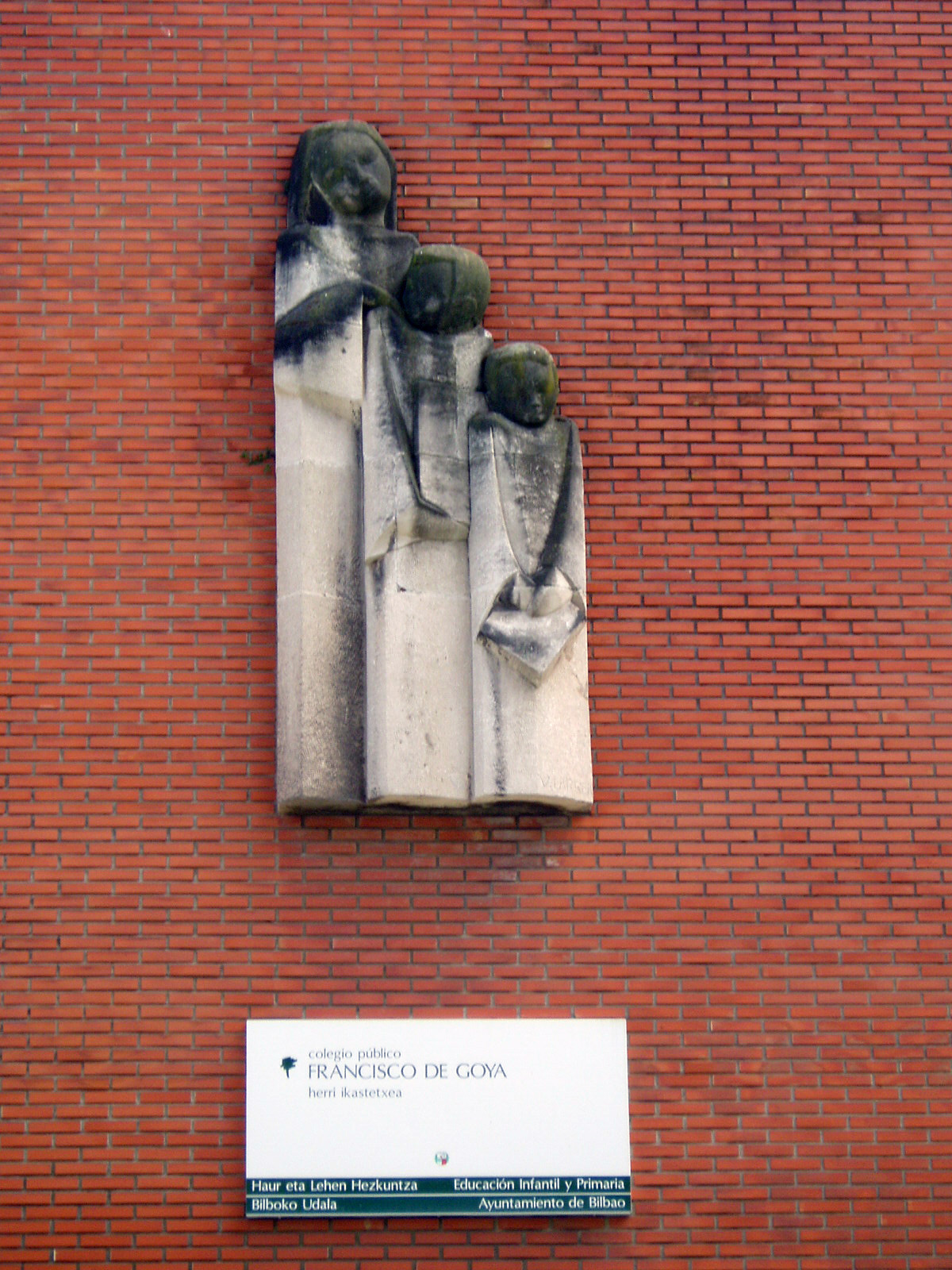 Sculpture in Francisco de Goya school's wall. Otxarkoaga (Bilbao).